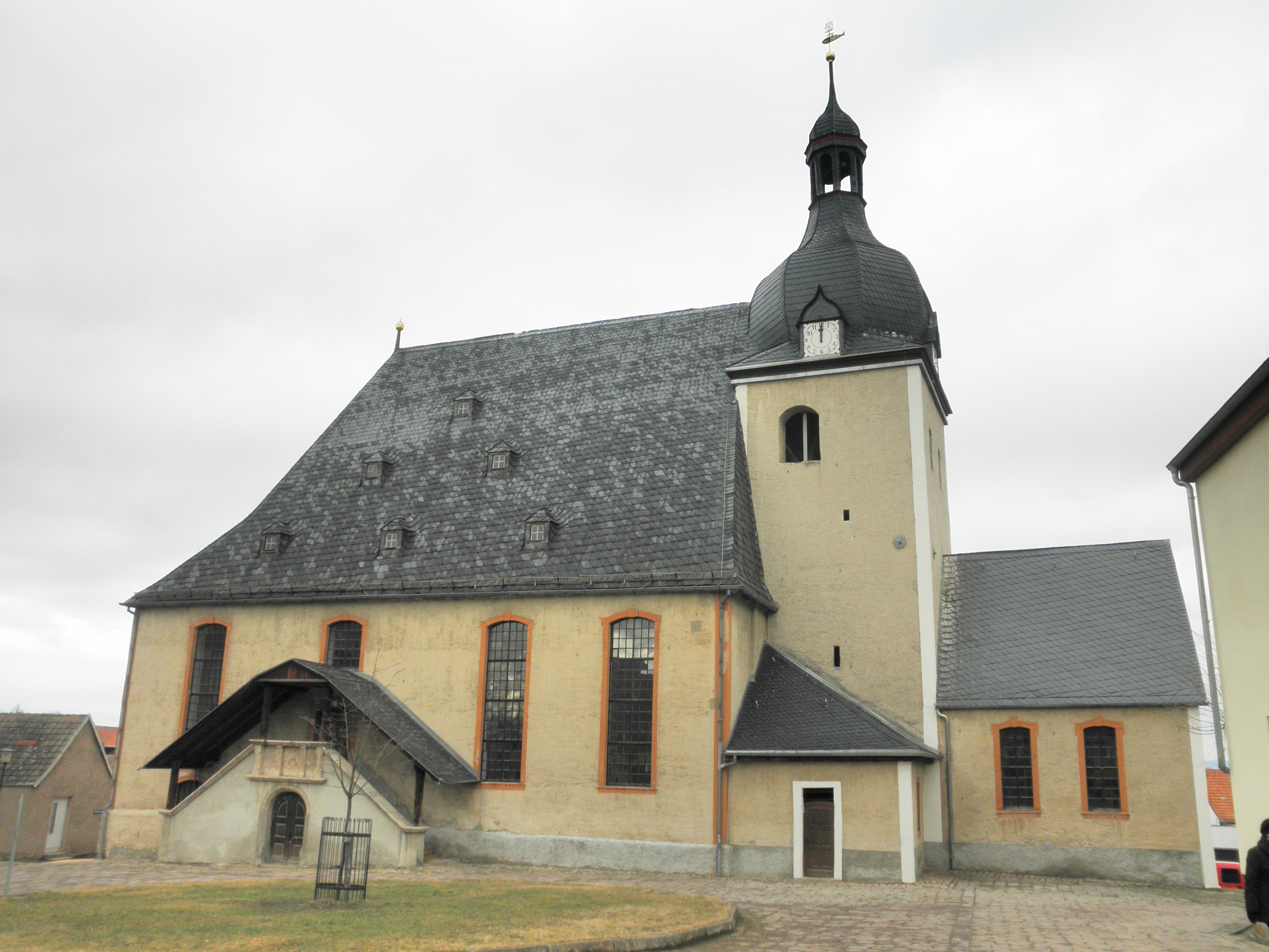 Church in Großbrembach in Thuringia